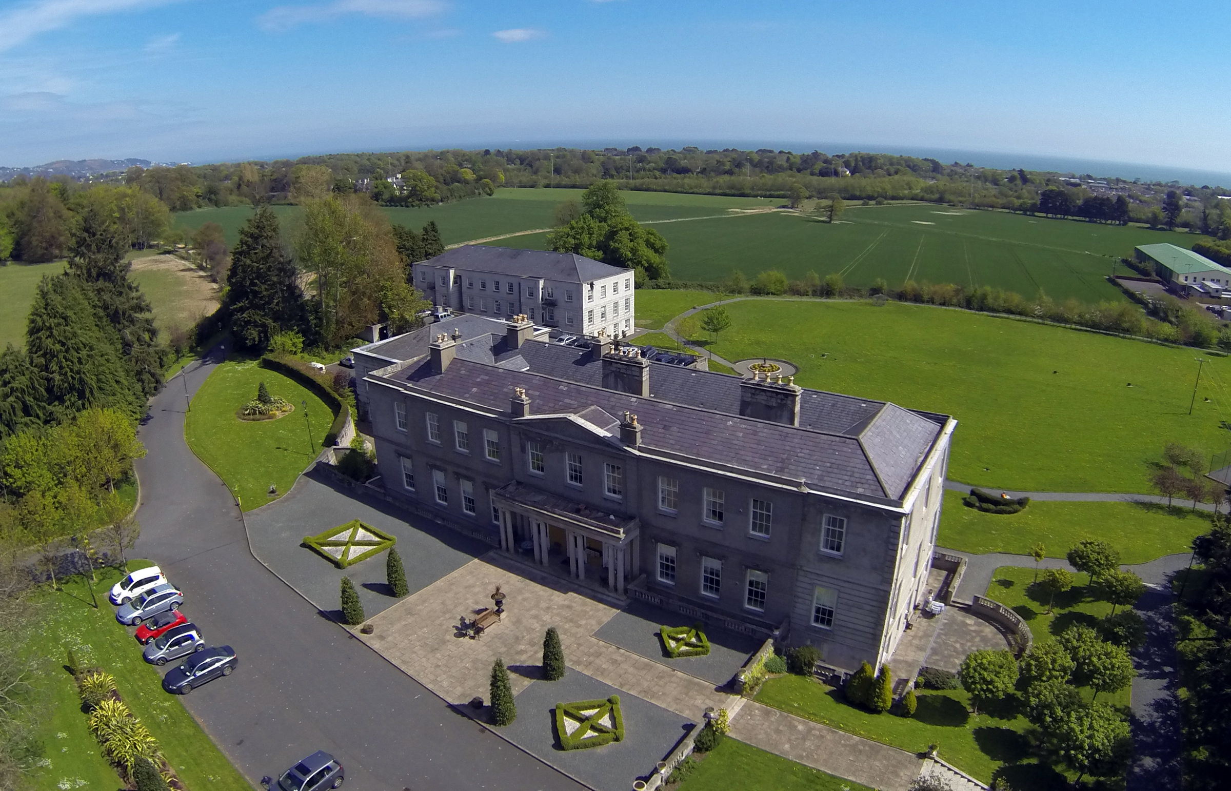 Taken from my GoPro on a friend's drone on a windy day.